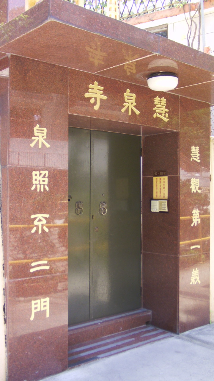 Gate 2 of Wai Chuen Monastery, Shatin, New Territories, Hong Kong